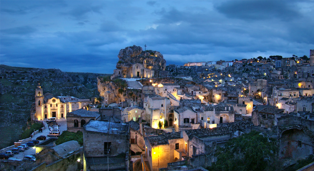 Matera, Basilicata, Italy. The Sasso Caveoso looking east. The church of Madonna de Idris is on top of the rock in the centre, the church of San Pietro Caveoso on the edge of the cliff on the left.